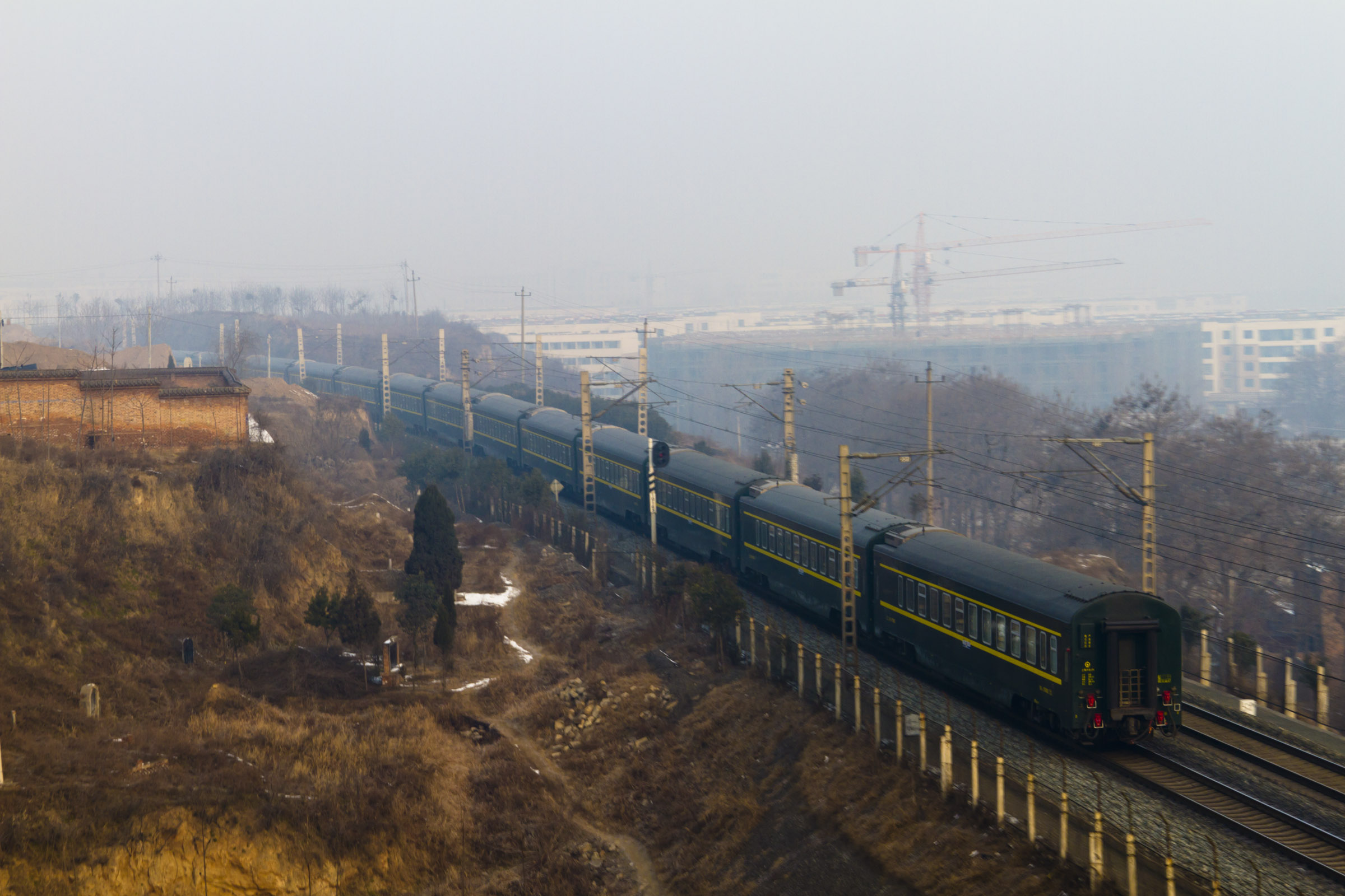 Chinese Railway T165(Shanghai-Lhasa) train near Weinan Station